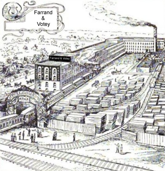 Farrand & Votey Organ Company factory in Detroit in 1891